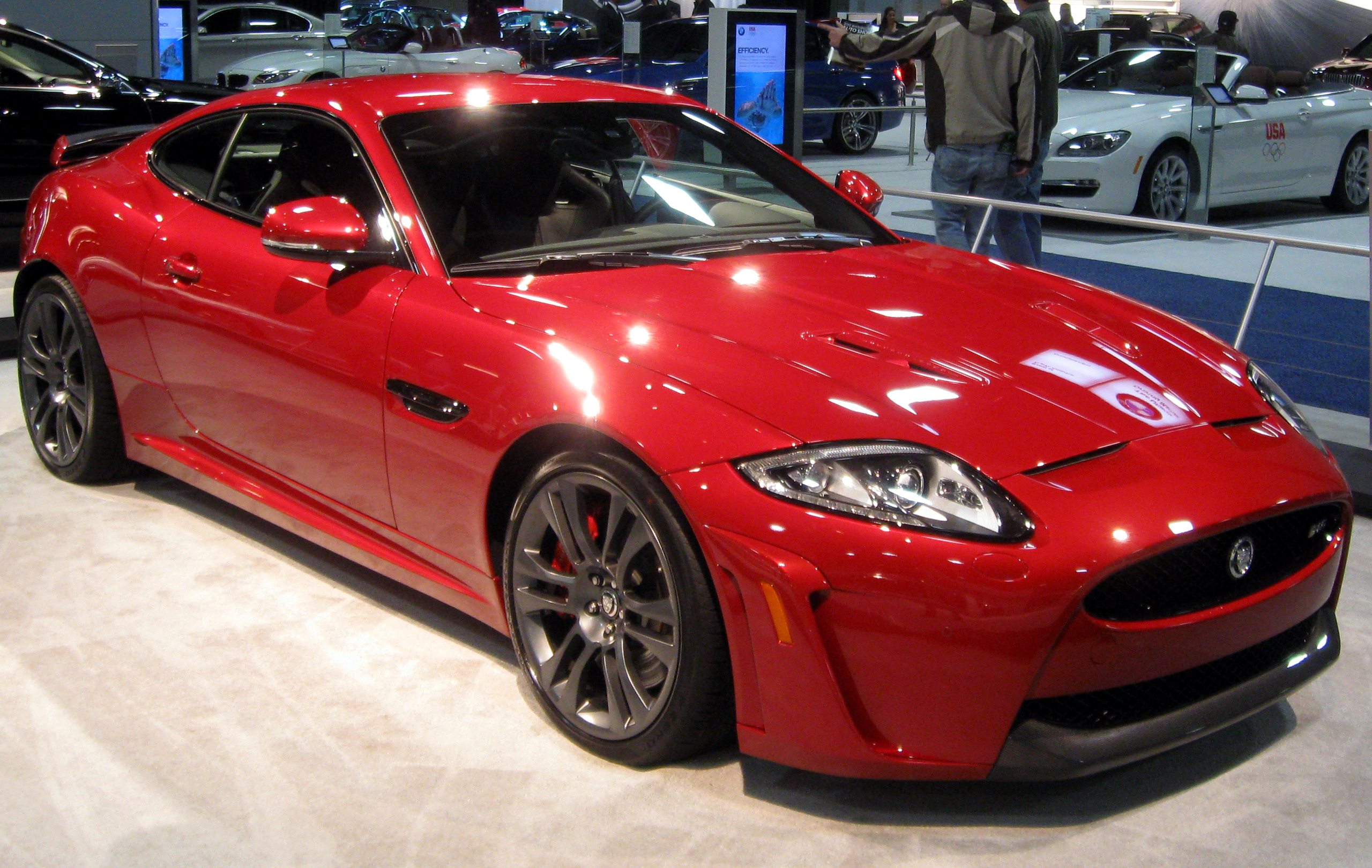 2012 Jaguar XKR-S photographed in Washington, D.C., USA.